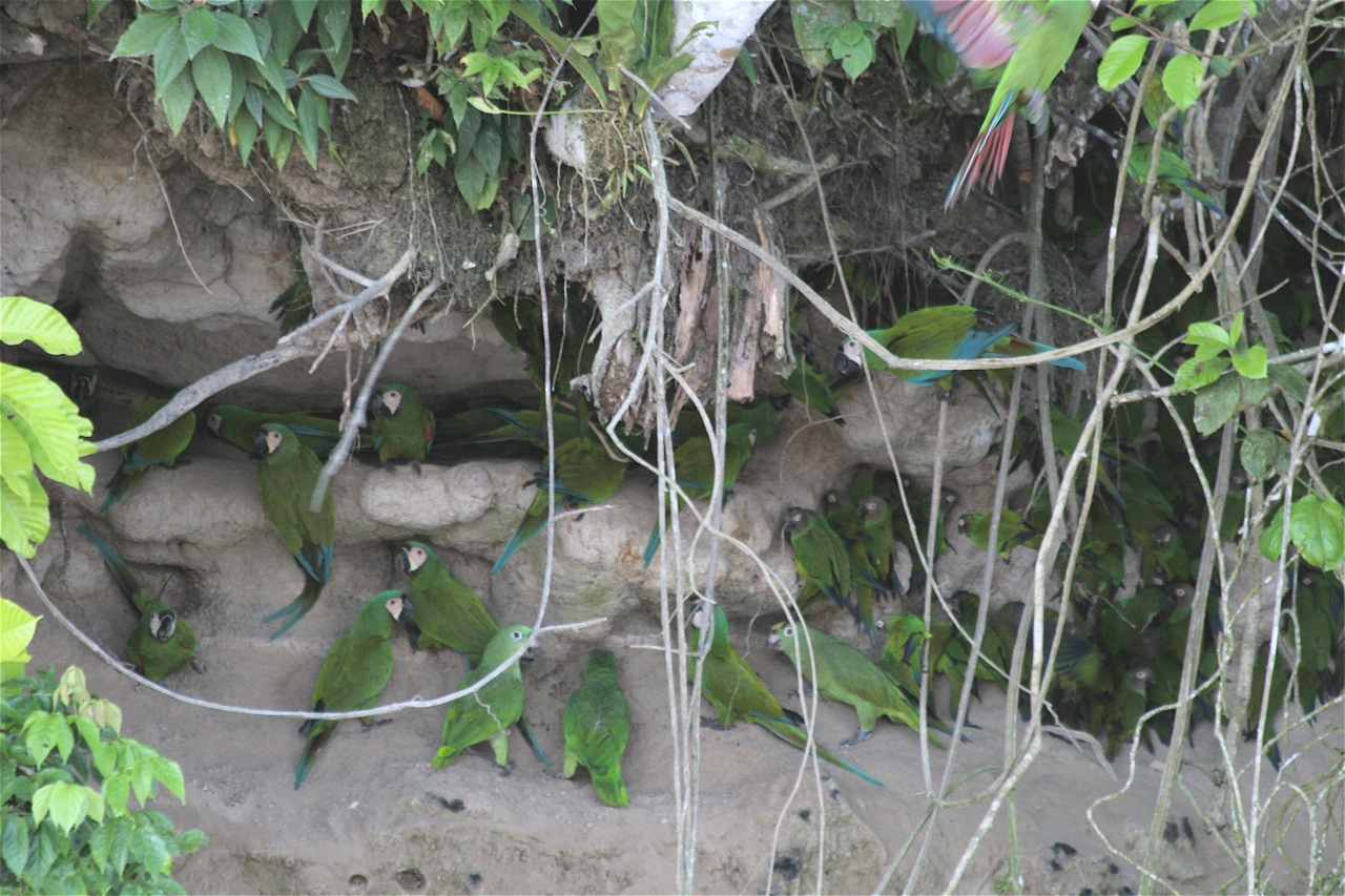 Chestnut-fronted Macaws (Ara severa) Yellow-crowned Amazons (Amazona ochrocephala) and Dusky-headed Conures (Aratinga weddellii) at a clay lick in Ecuador.